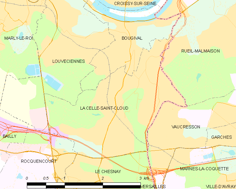 Map of French municipality La Celle-Saint-Cloud